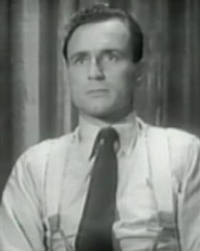 William Bakewell in The Fabulous Dorseys (cropped screenshot)